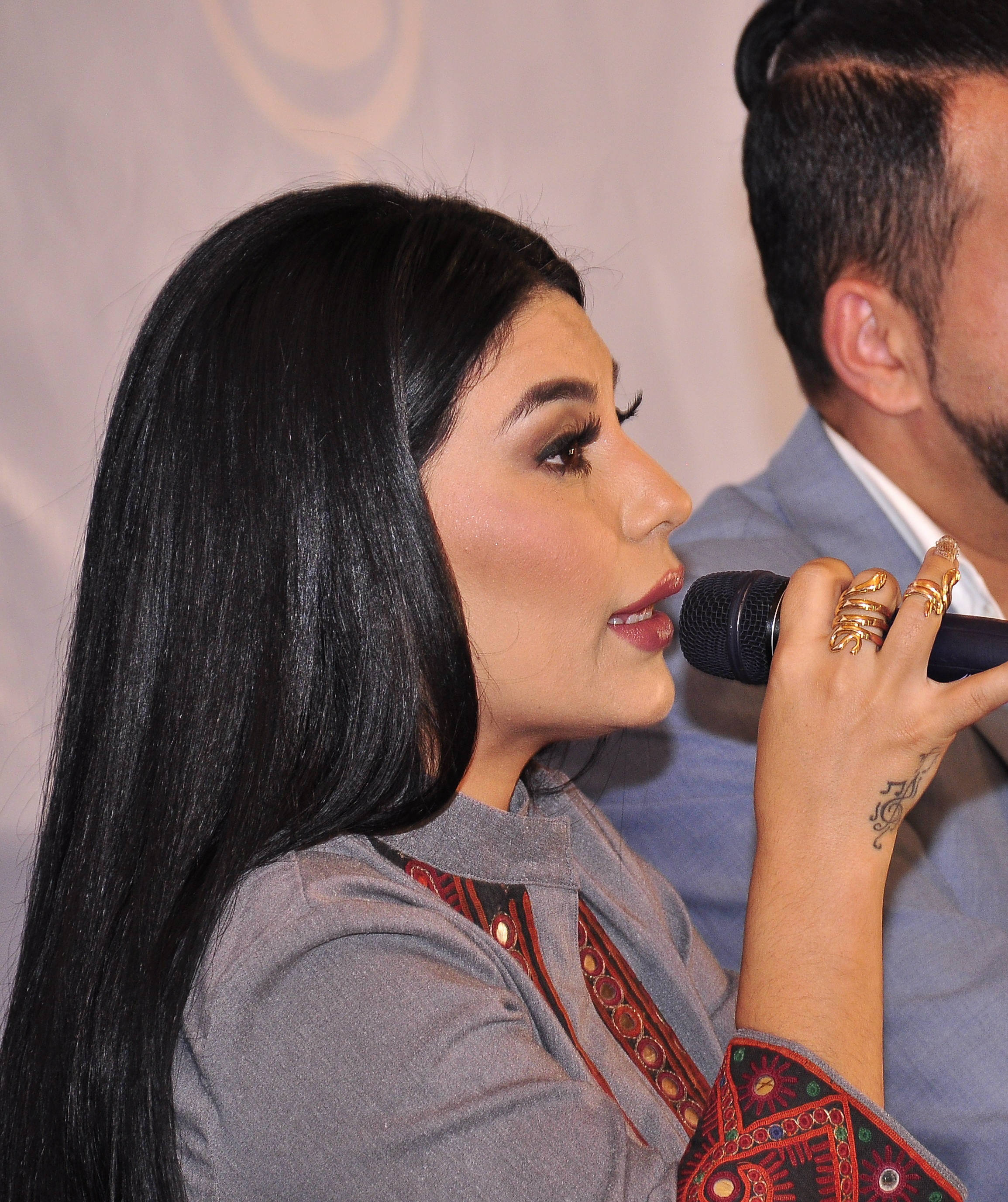 Aryana Sayeed gives her speech on how she uses social media for positive way.